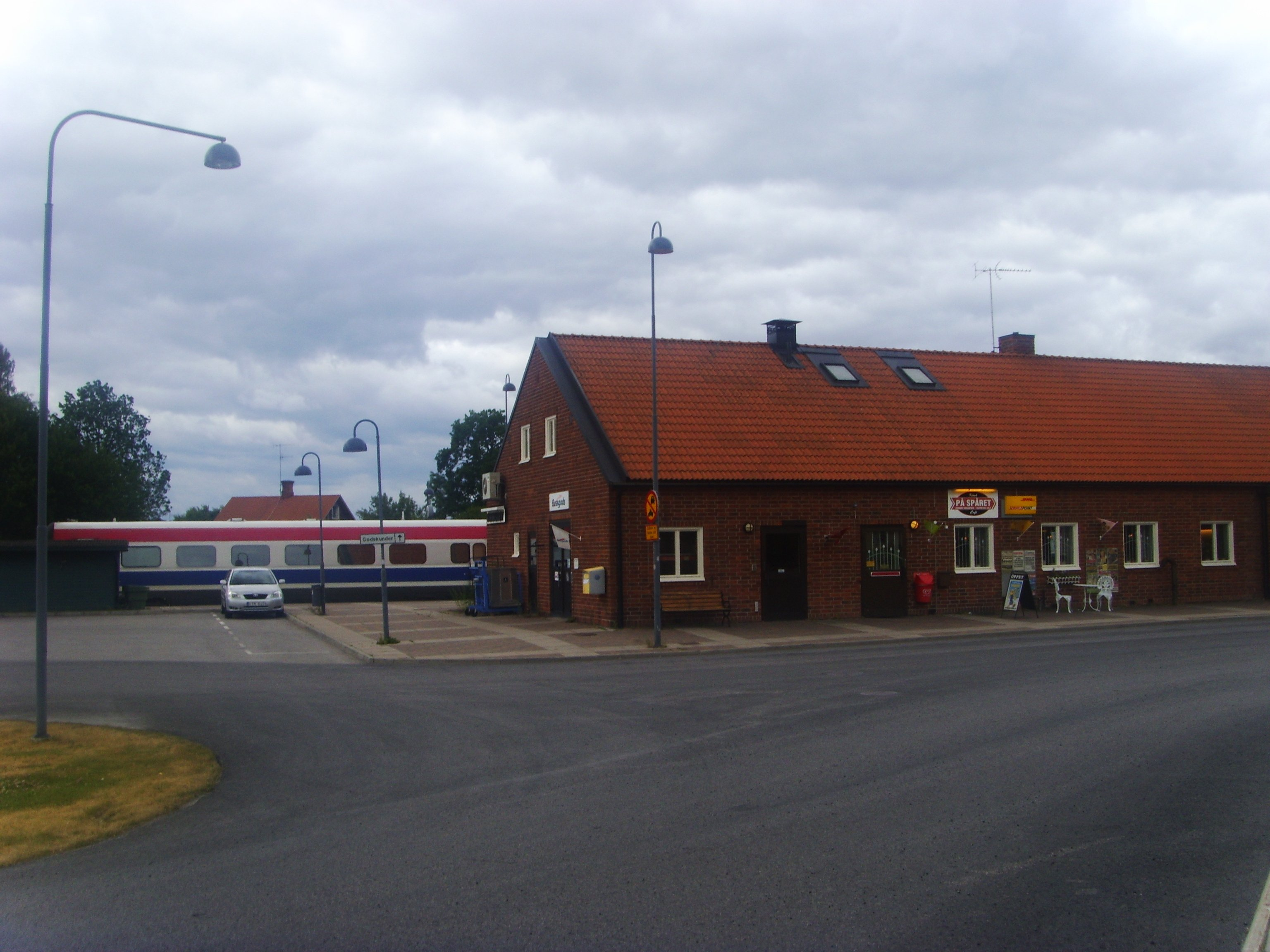 The railway station in Vimmerby.